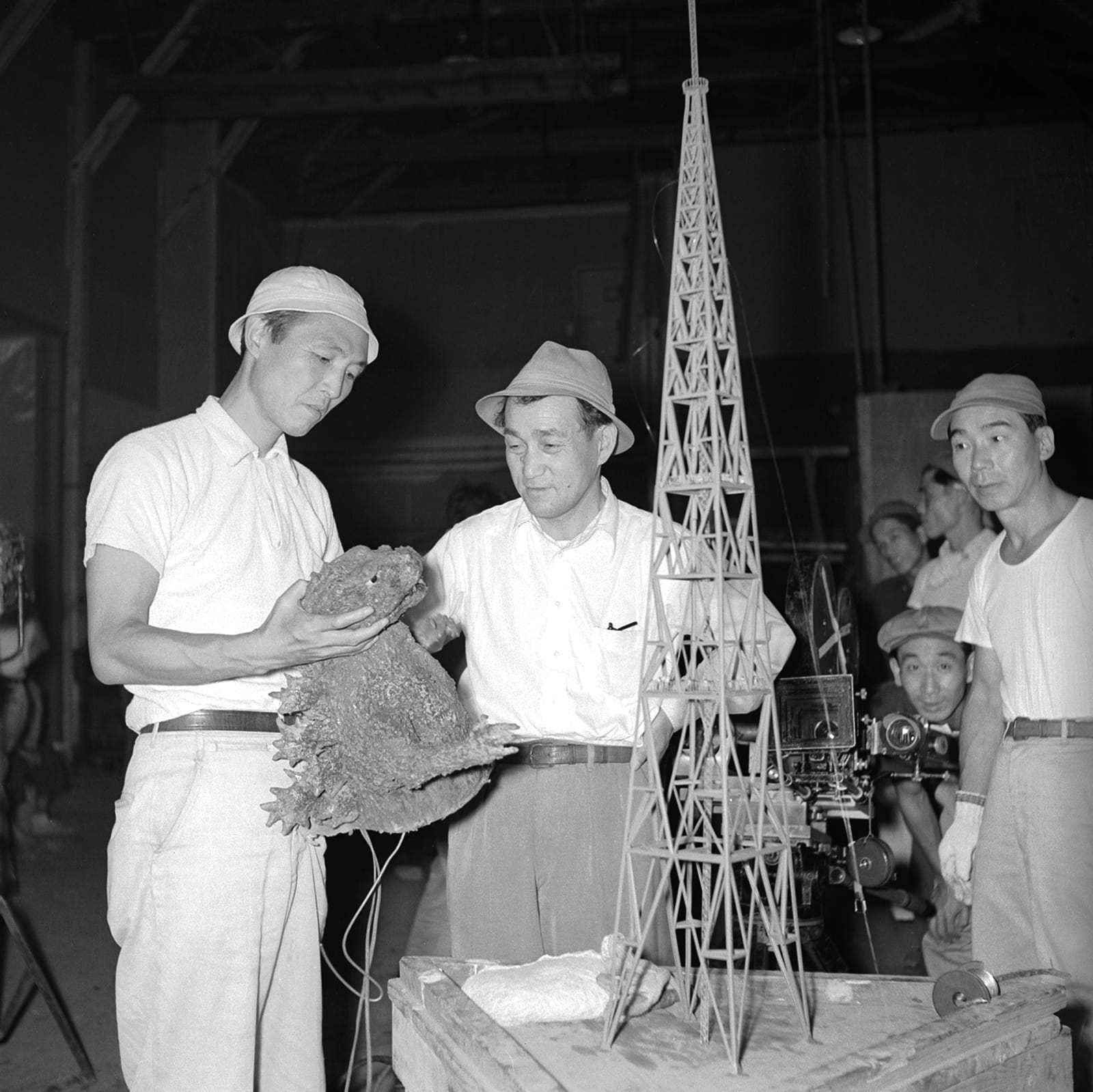 Director Ishirō Honda shooting Godzilla.